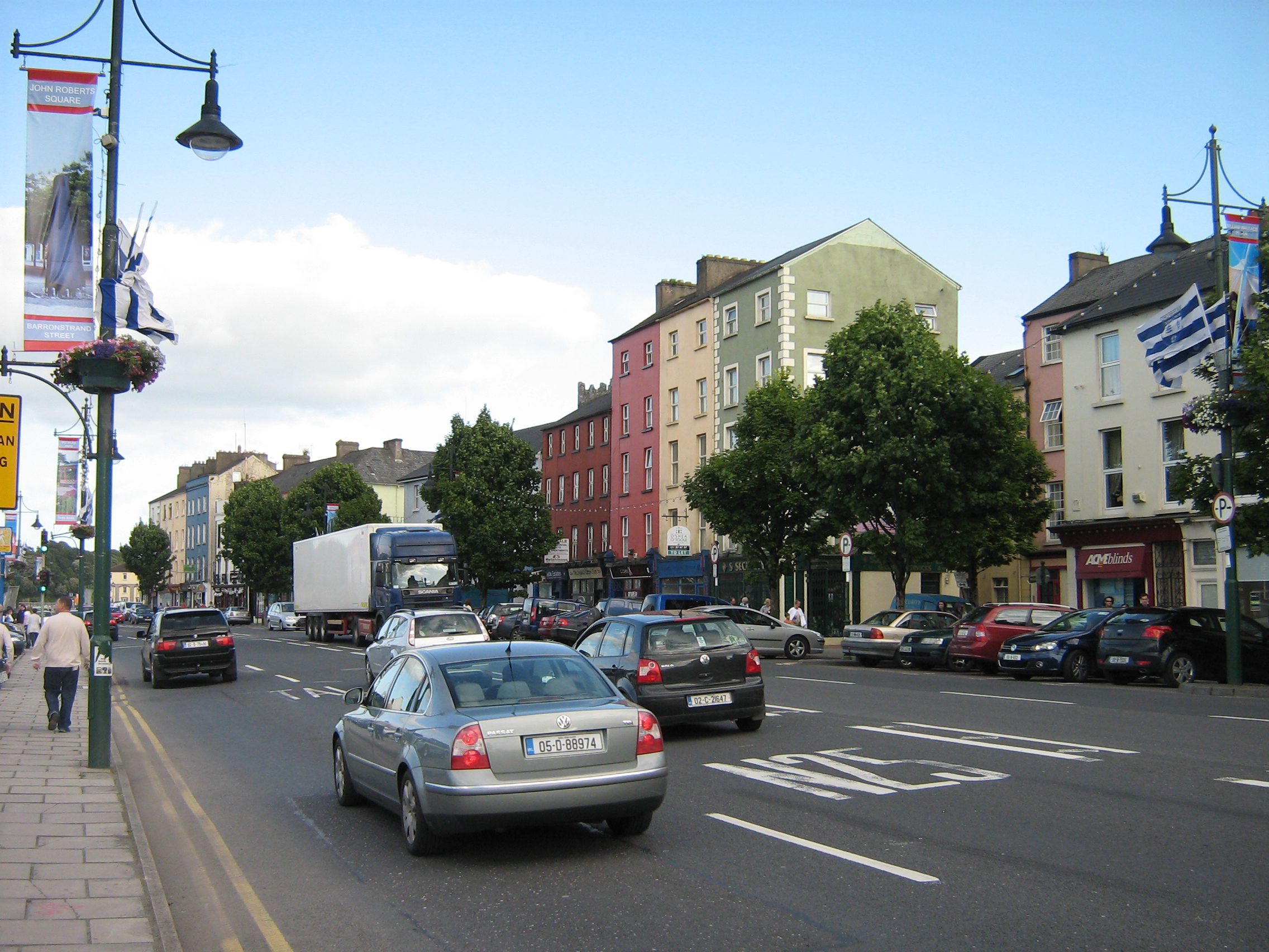 Mainstreet of Waterford